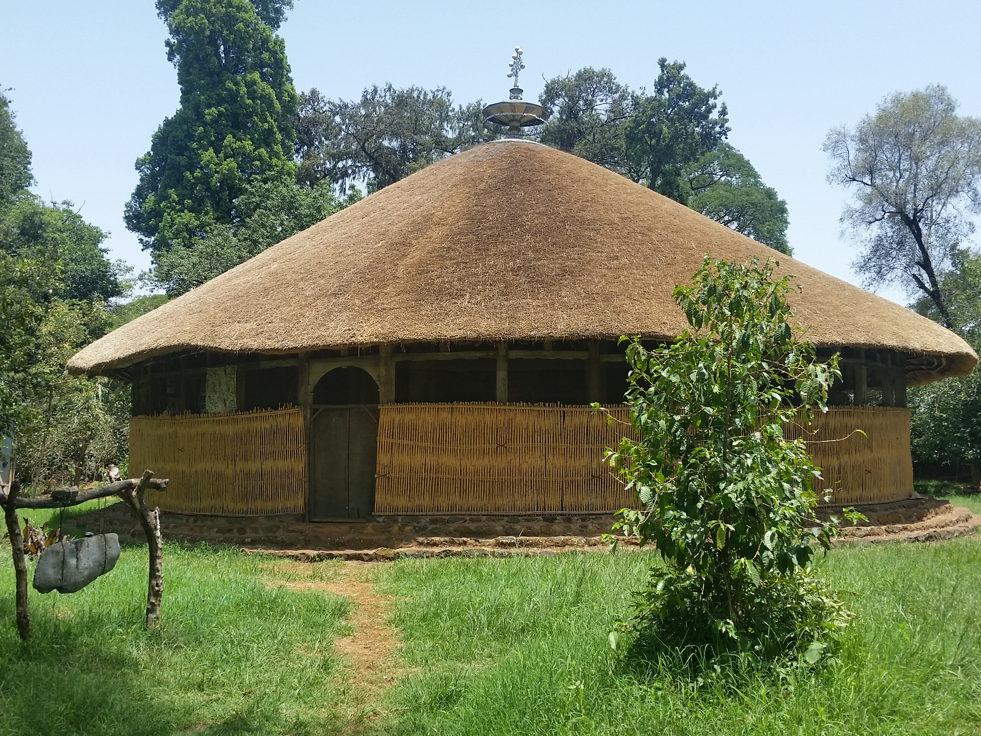 Exterior view of the monastery of Azuwa Maryam on Zege peninsula